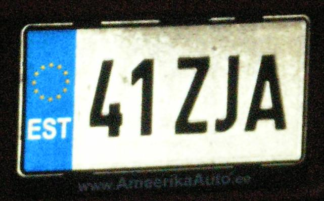 License plate from Estonia in US size (Z)